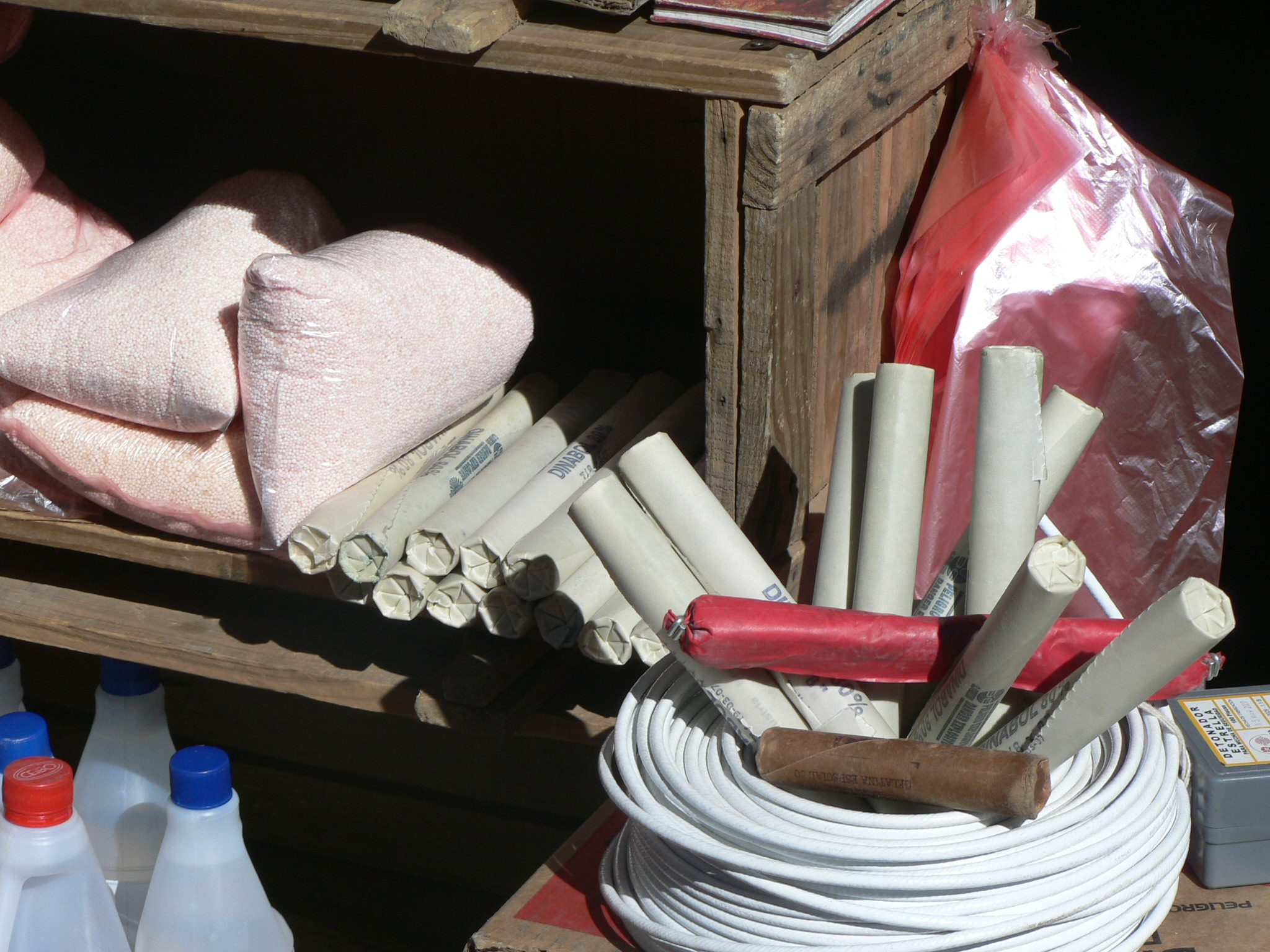 Ammonium nitrate, bottles with pure alcohol, dynamite and fuses (from left to right) at the miners market in Potosí, Bolivia (2007). Everything is sold openly without restrictions.